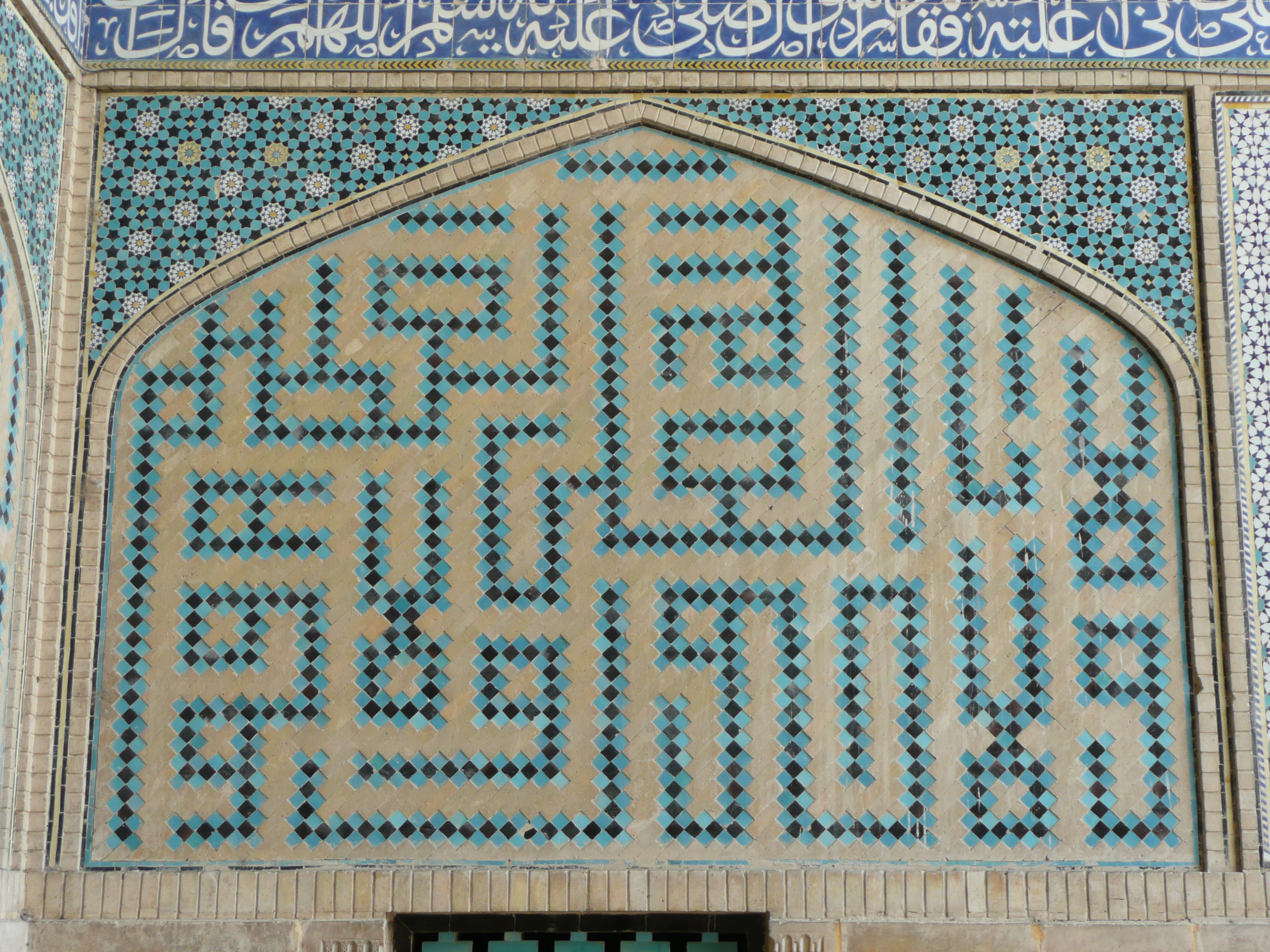 Photographs from Isfahan, Iran